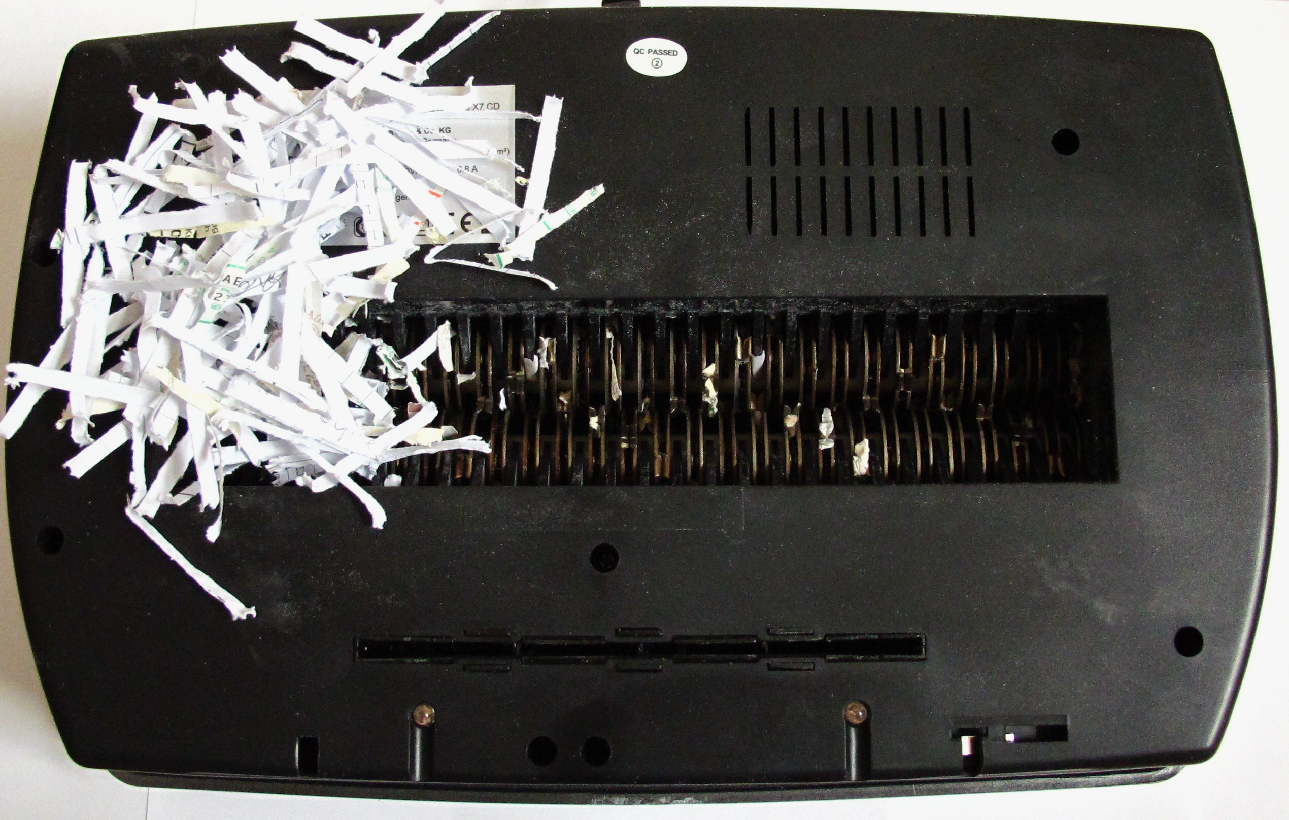 Cutting head of a paper shredder, security level 3 with cross-cut